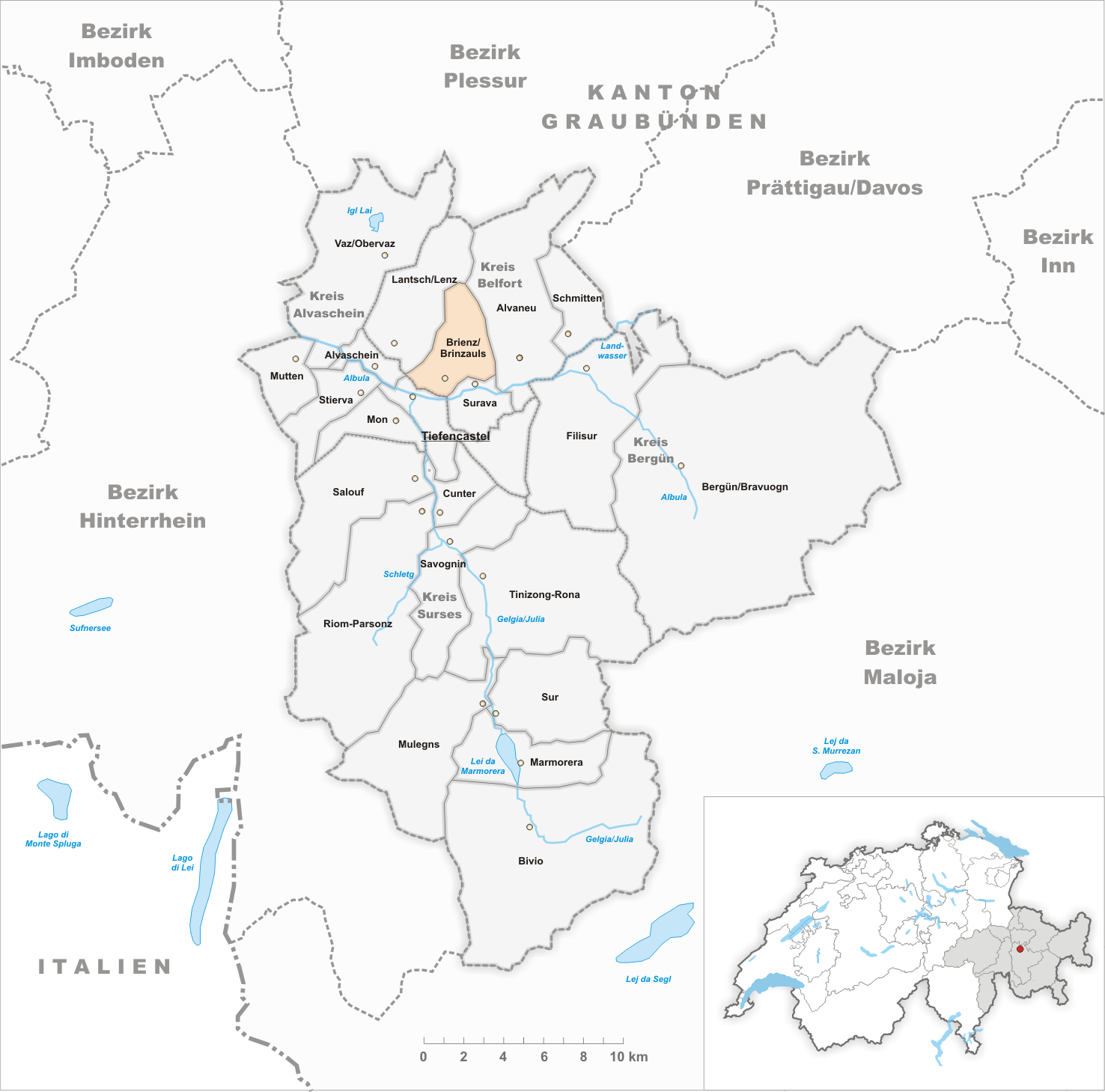 Municipality Brienz/Brinzauls